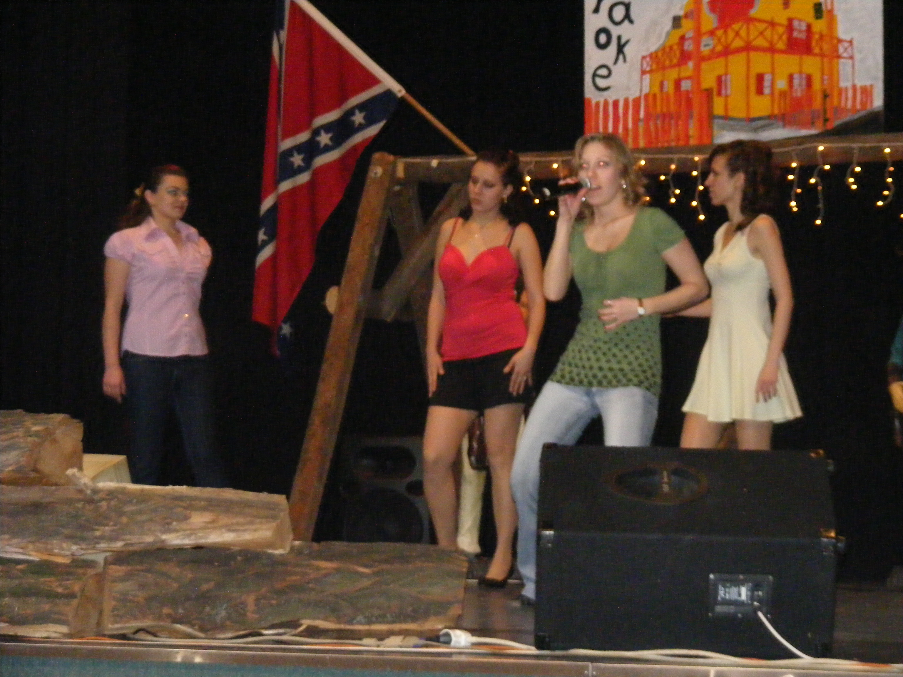 Gyál FM